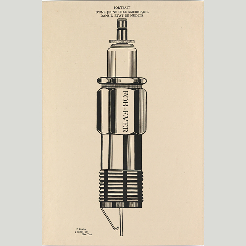 Abstract portrait of Agnes Meyer by Francis Picabia as sparkplug